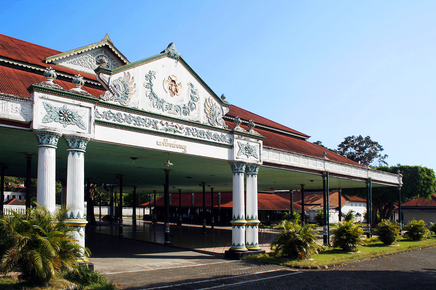 "Pagelaran", the front hall of Kraton of Yogyakarta, Indonesia. The hall facing "Alun-alun Lor" or nothern city square. The hall is a multipurpose building.